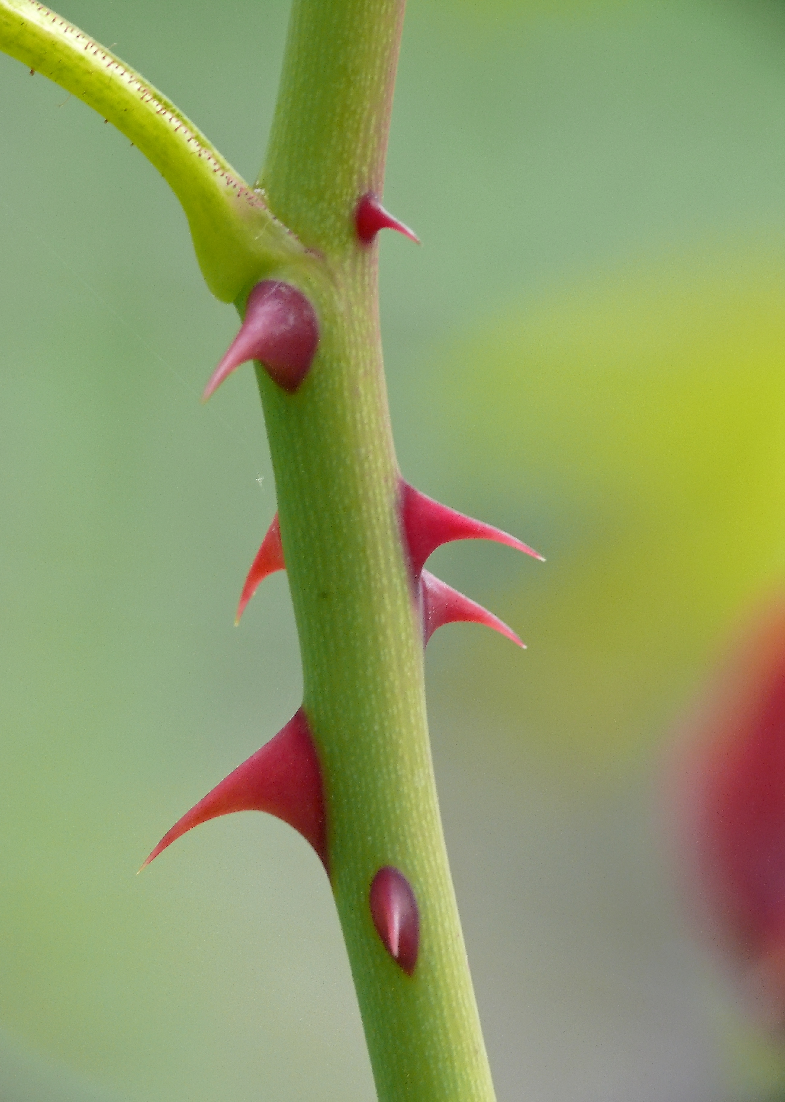 At Berkeley Rose Garden Taken with Panasonic Lumix FZ50 and Raynox 150